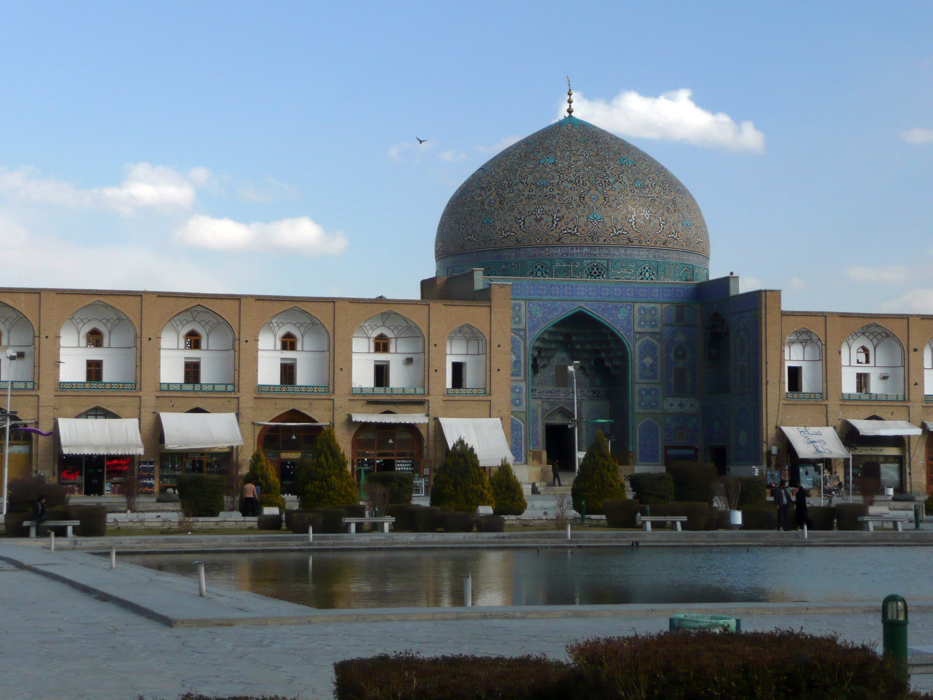 Photographs from Isfahan, Iran